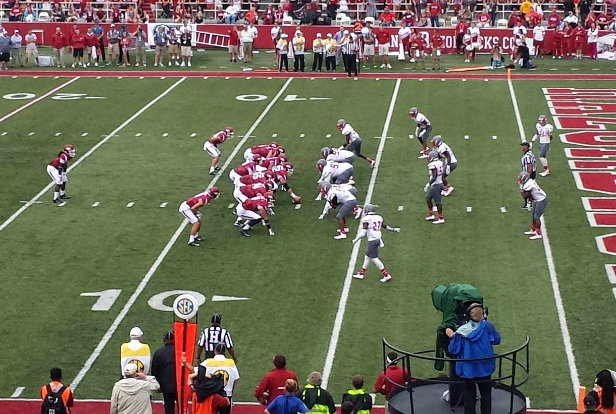 Nichols at Arkansas in Razorback Stadium, Fayetteville, AR